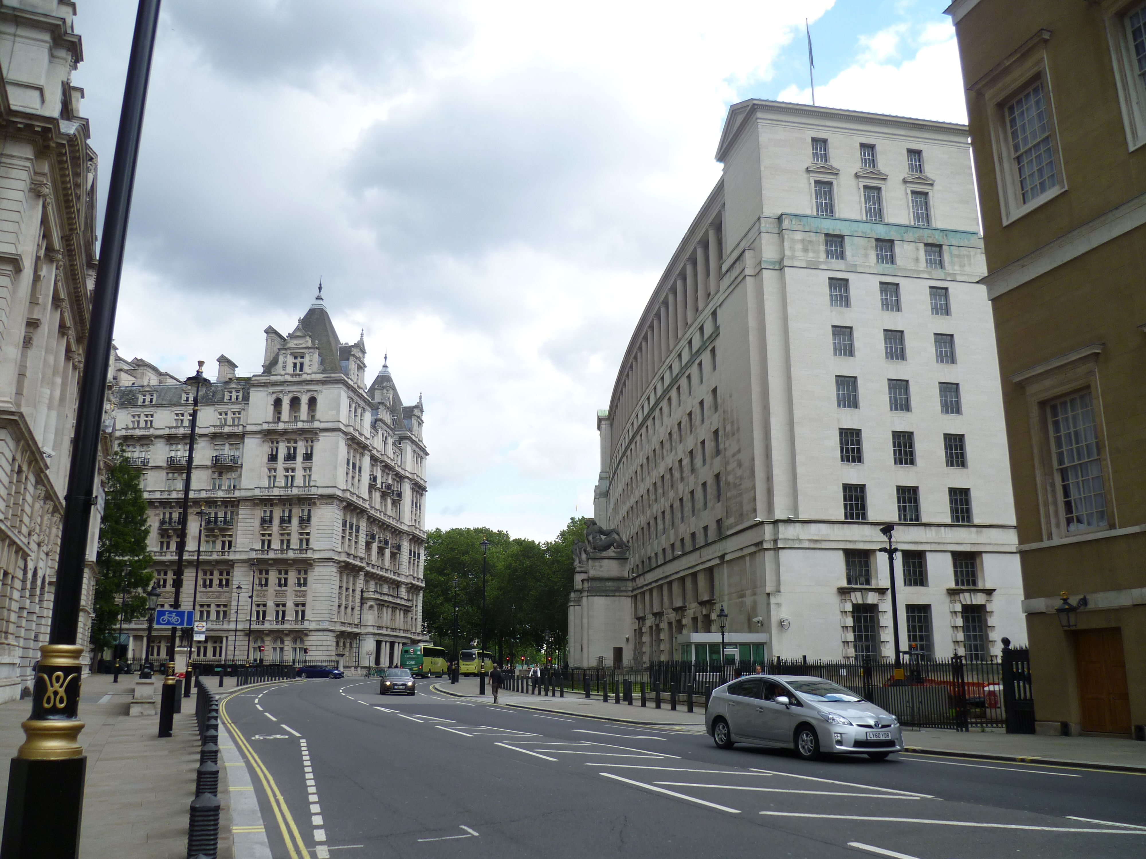 London